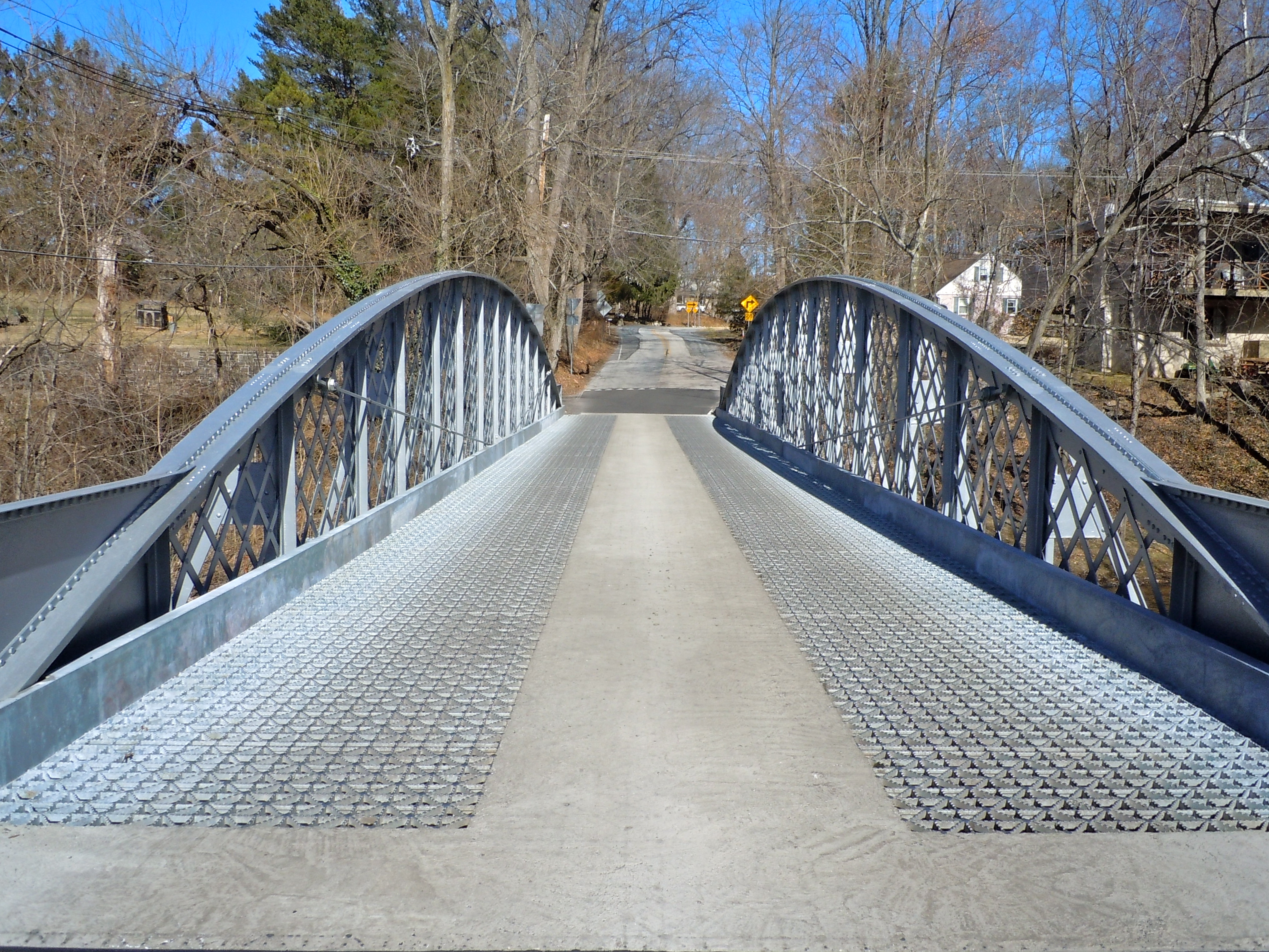 New deck on Hare's Hill Road Bridge. Bridge on the NRHP since March 28, 1978. Located west of Phoenixville, north of Kimberton on Hare's Hill Road across French Creek (Tributary of the Schuylkil), East Pikeland Township, Chester County, Pennsylvania. Built 1860s